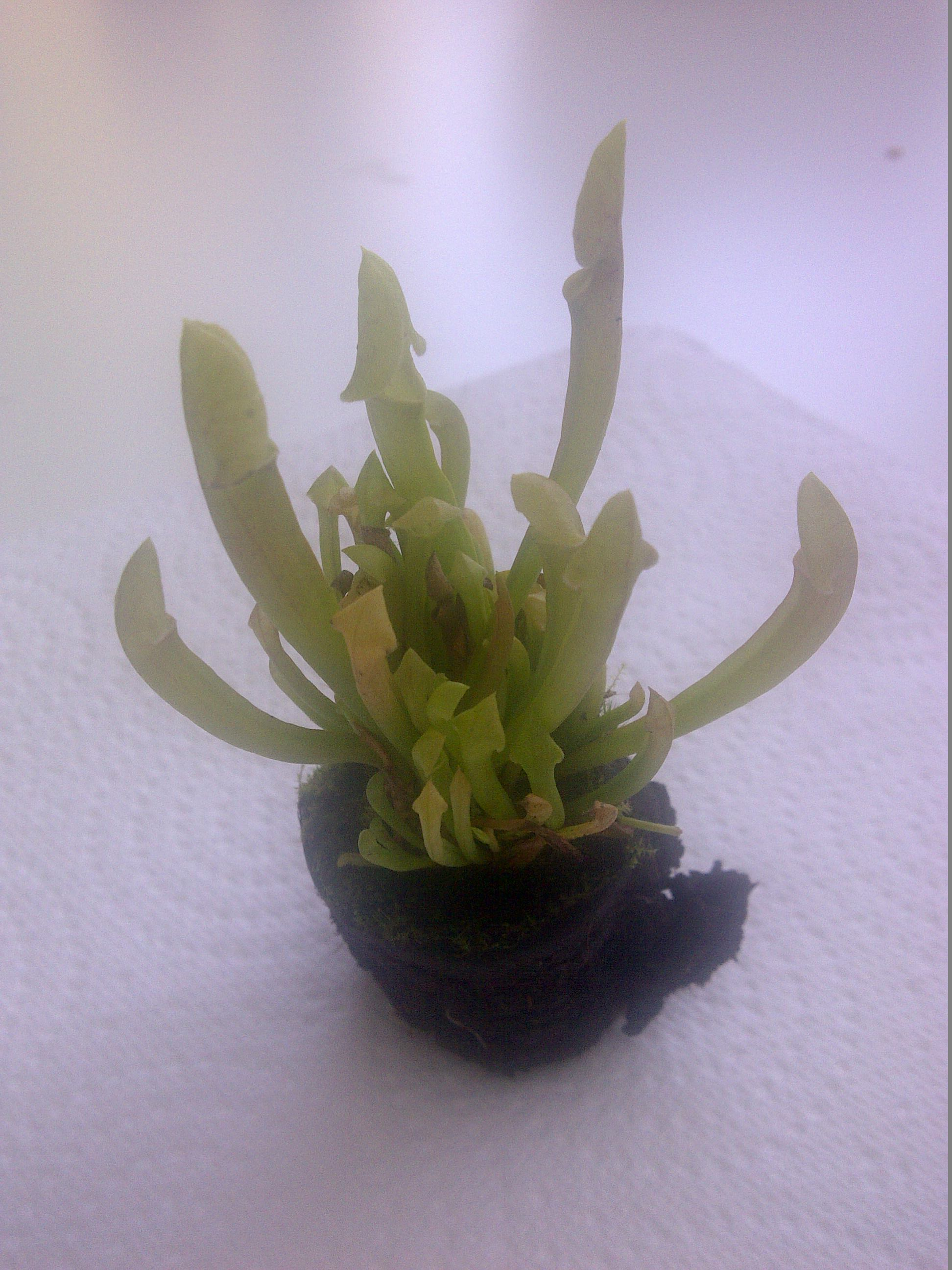 Yellow pitcher plant (Sarracenia flava) as a houseplant in London, England.